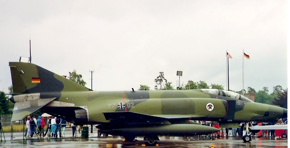 A McDonnell Douglas RF-4E Phantom II of the German Luftwaffe's Aufklärungsgeschwader 52 (52nd reconnaissance wing) on display at Ramstein Air Base, Rhineland-Palatinate (Germany) on 24 June 1984.